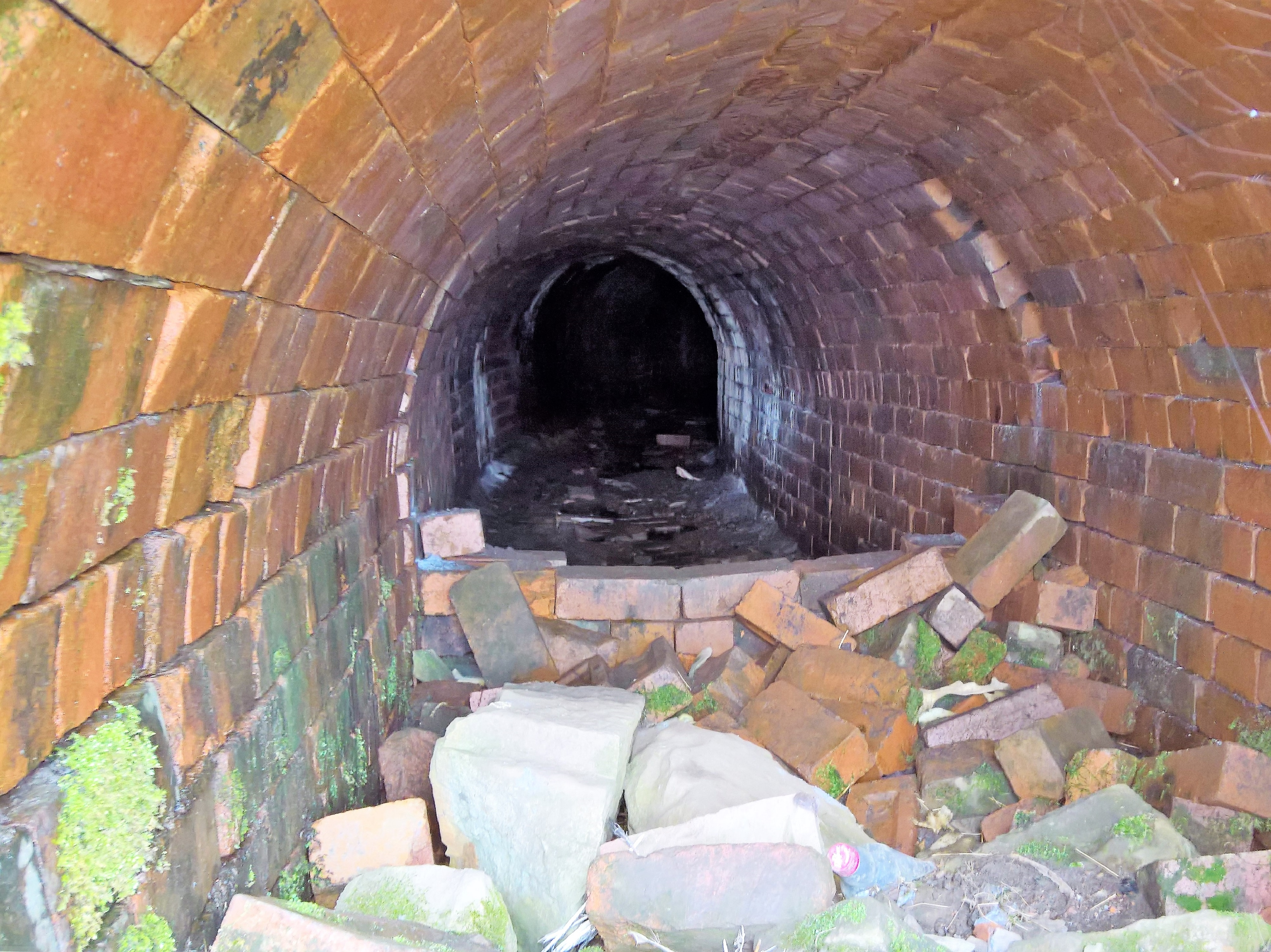 Inside (just) an old surface drift at the site of Porters Gate Colliery near Burnley, Lancashire.